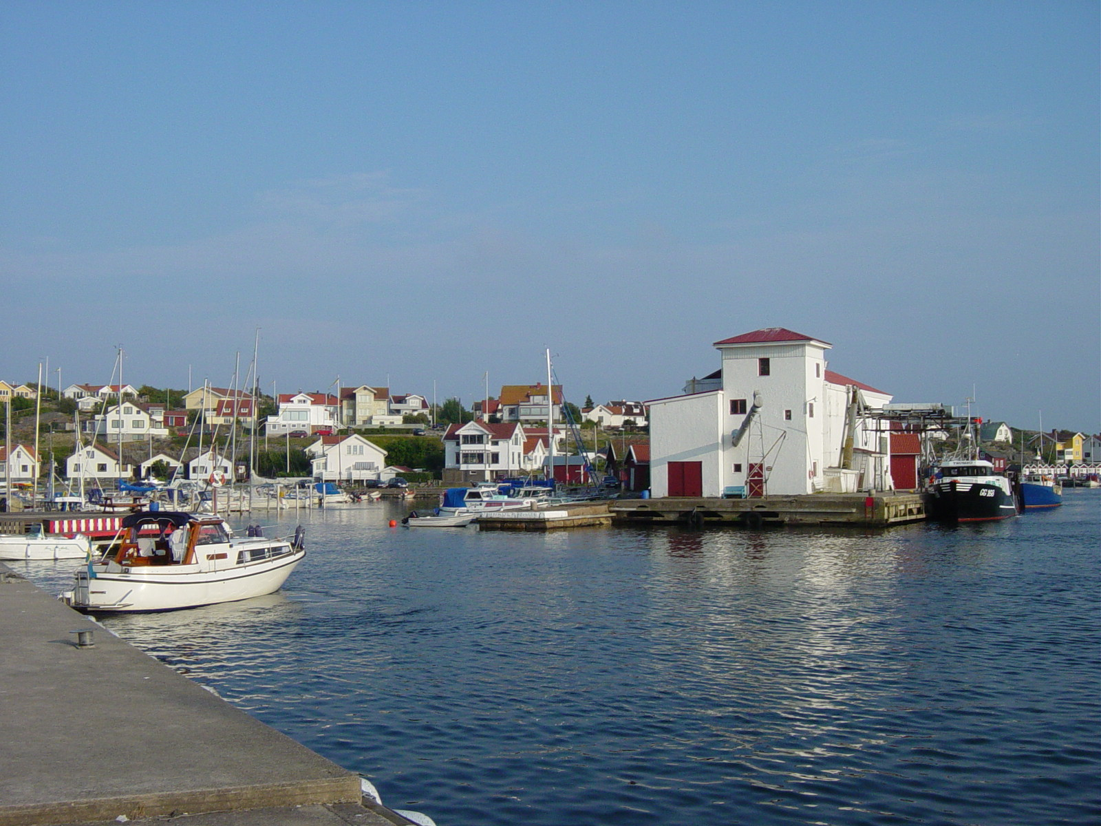 Björkö island Sweden